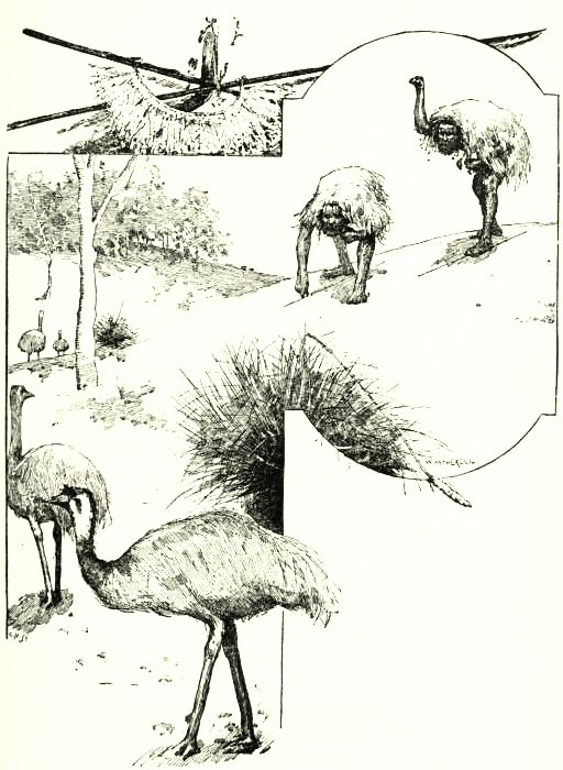 Engraving 'Emu Hunting in Australia' from Foot-Prints of Travel by Maturin M. Ballou, Ginn and Company, Boston, 1889